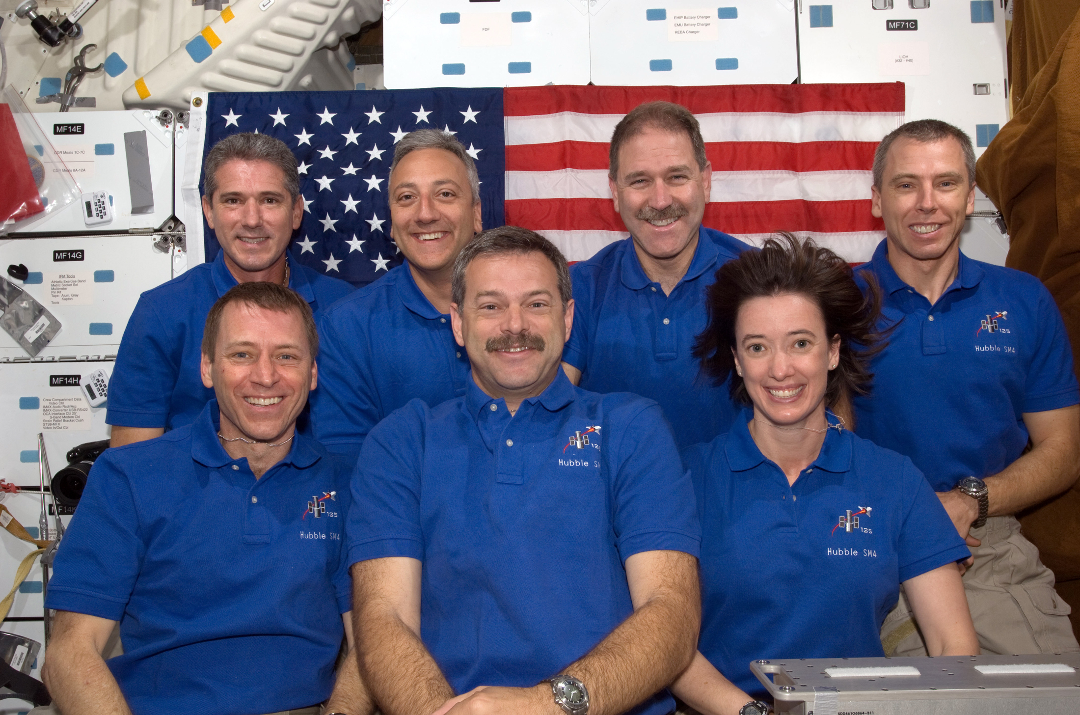 The crewmembers for the STS-125 mission pose for the traditional in-flight portrait on the middeck of the Earth-orbiting Space Shuttle Atlantis. Pictured on the front row are astronauts Scott Altman (center), commander; Gregory C. Johnson, pilot; and Megan McArthur, mission specialist. Pictured on the back row (left to right) are astronauts Michael Good, Mike Massimino, John Grunsfeld and Andrew Feustel, all mission specialists.